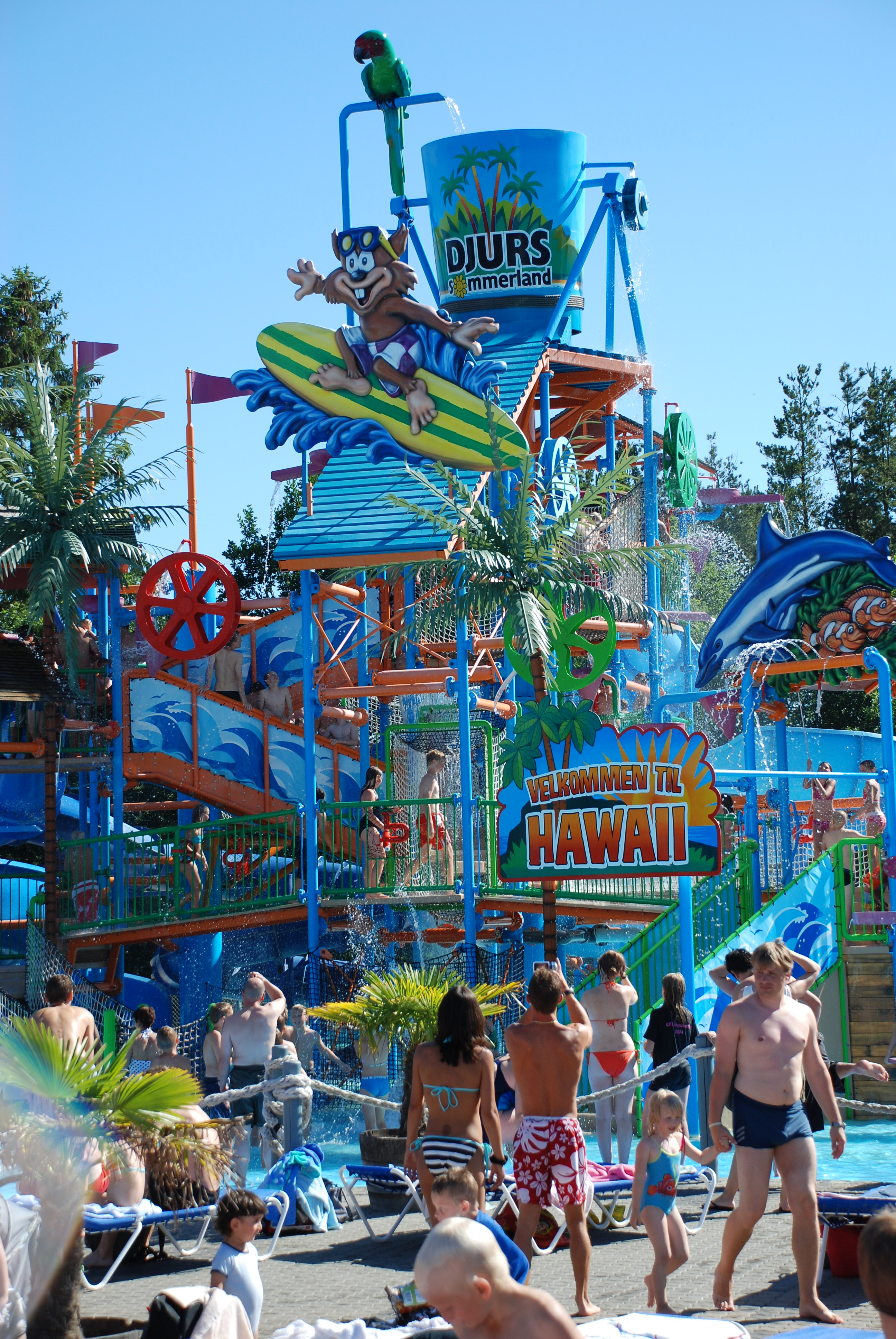 Wet amusement installation in Djurs Sommerland